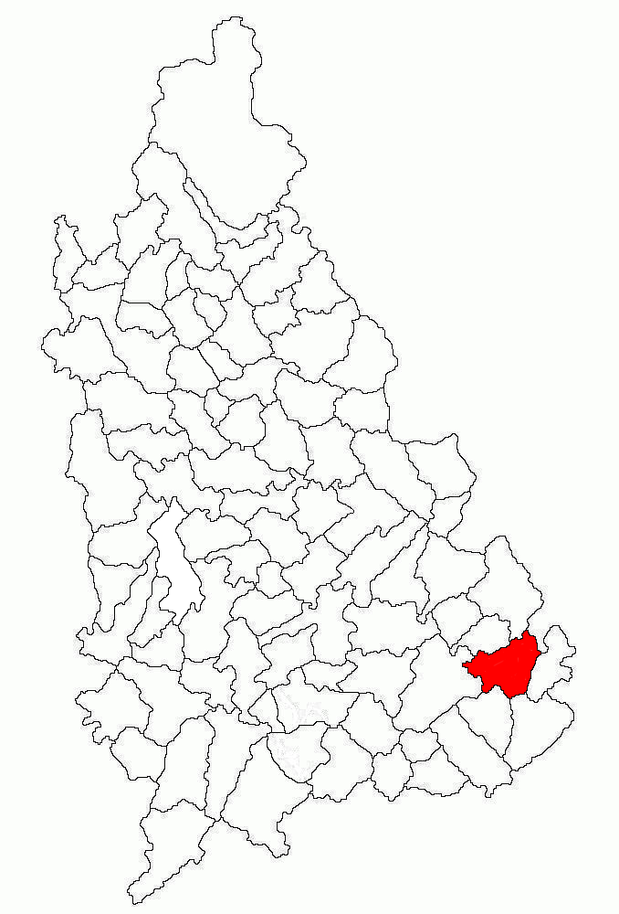 Locator map of Butimanu commune, Dâmbovița County, Romania